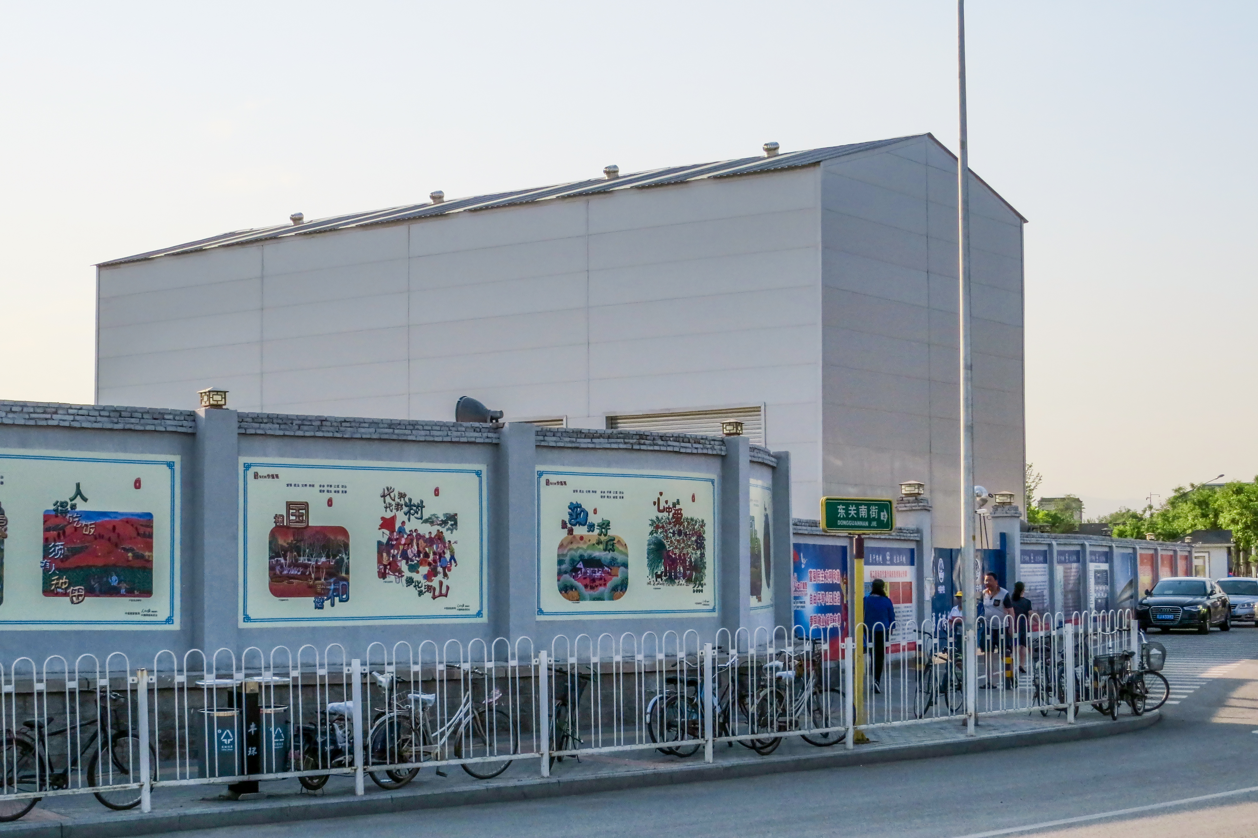 The southern terminus of L16...